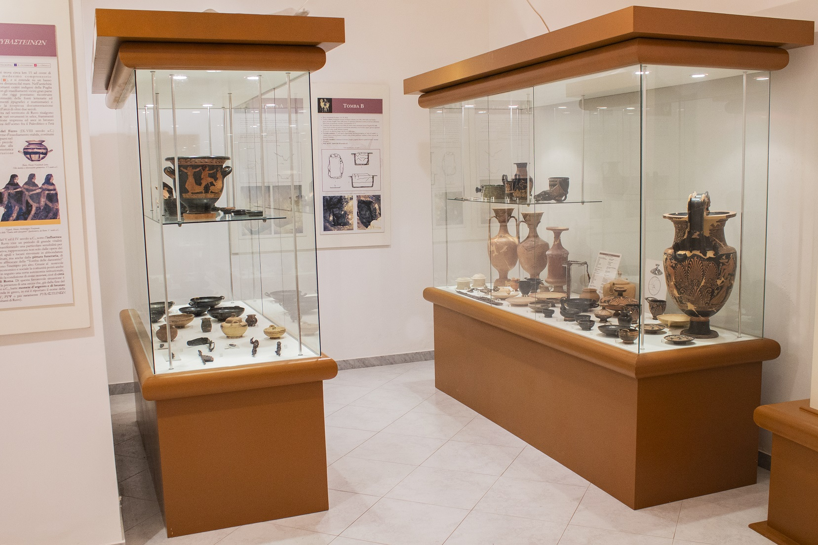 Museo Archeologico di Bitonto